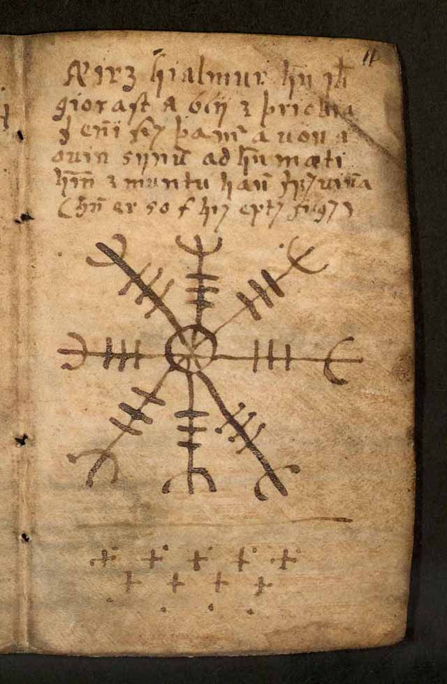 Helm of Ægir. It shall be made in lead, and when a man expects his enemies he shall imprint it on his forehead. And thou wil conquer him. (it is at follows)